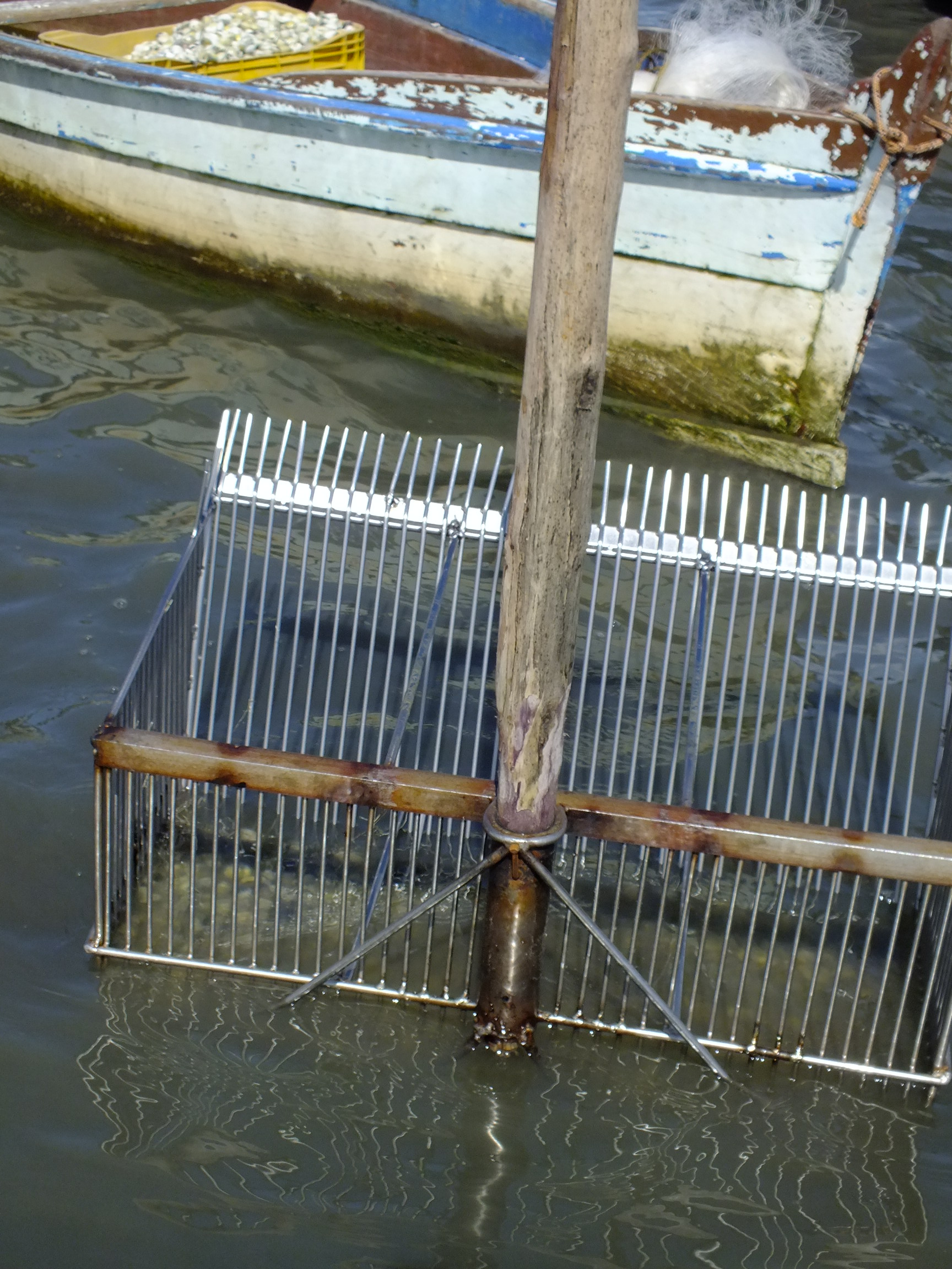 hook to vongole